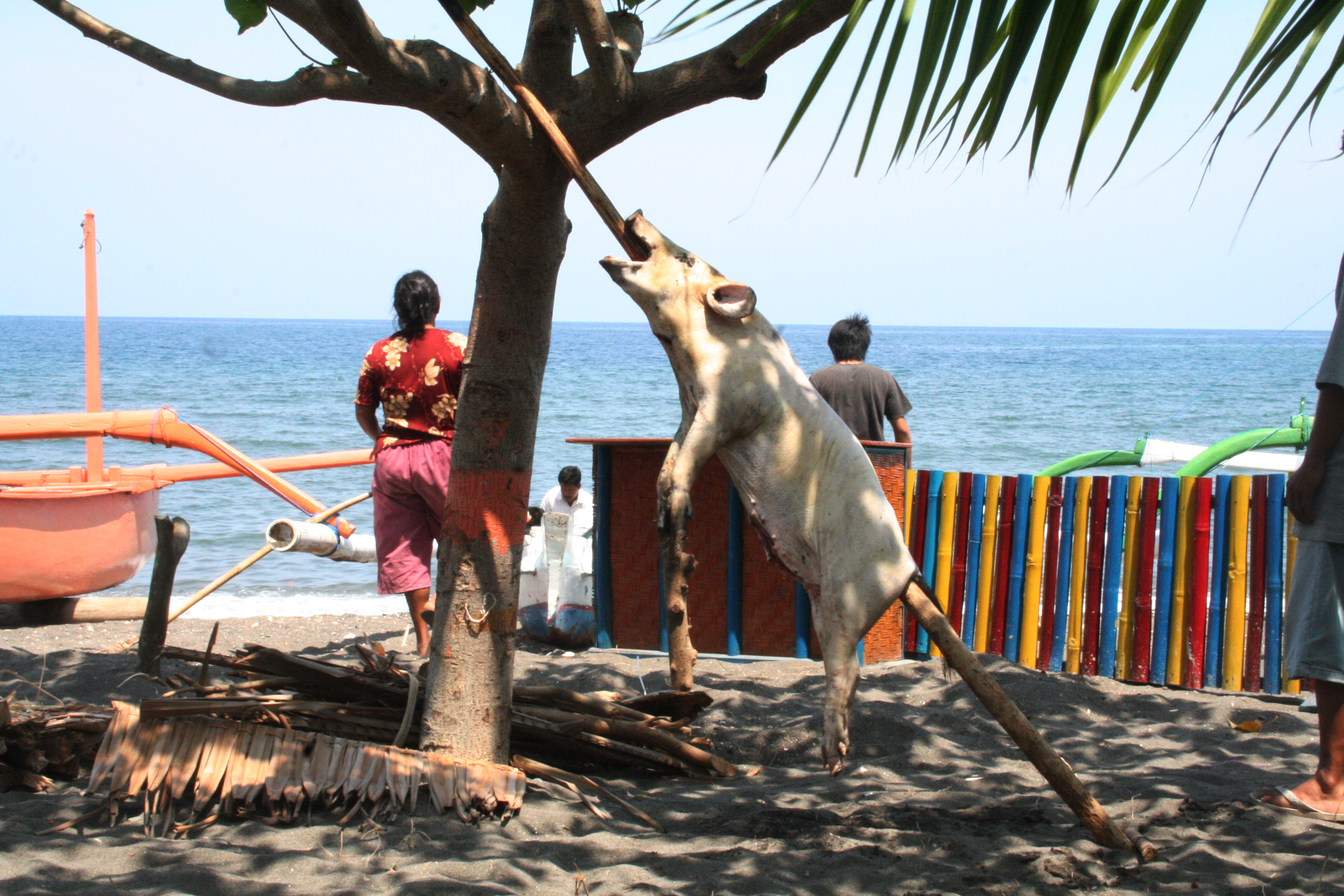 an impaled pig ("babi guling") at Lovina Beach near Singaraja, Northern Bali, Indonesia